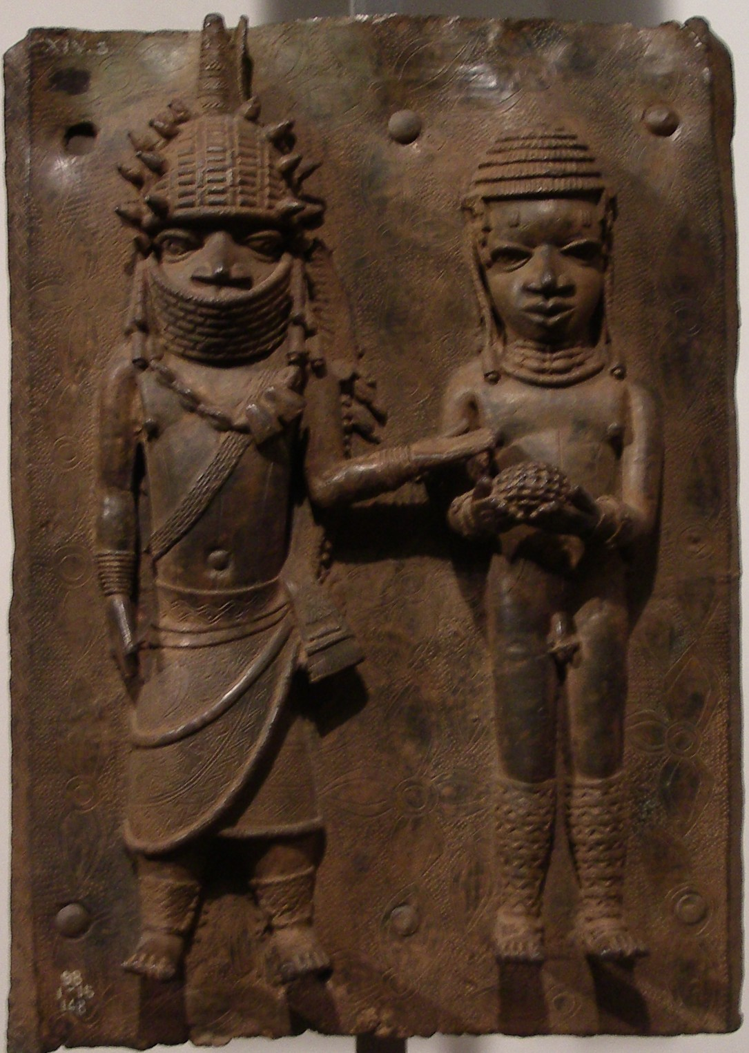 Benin bronze from the 16th Century, Benin Kingdom